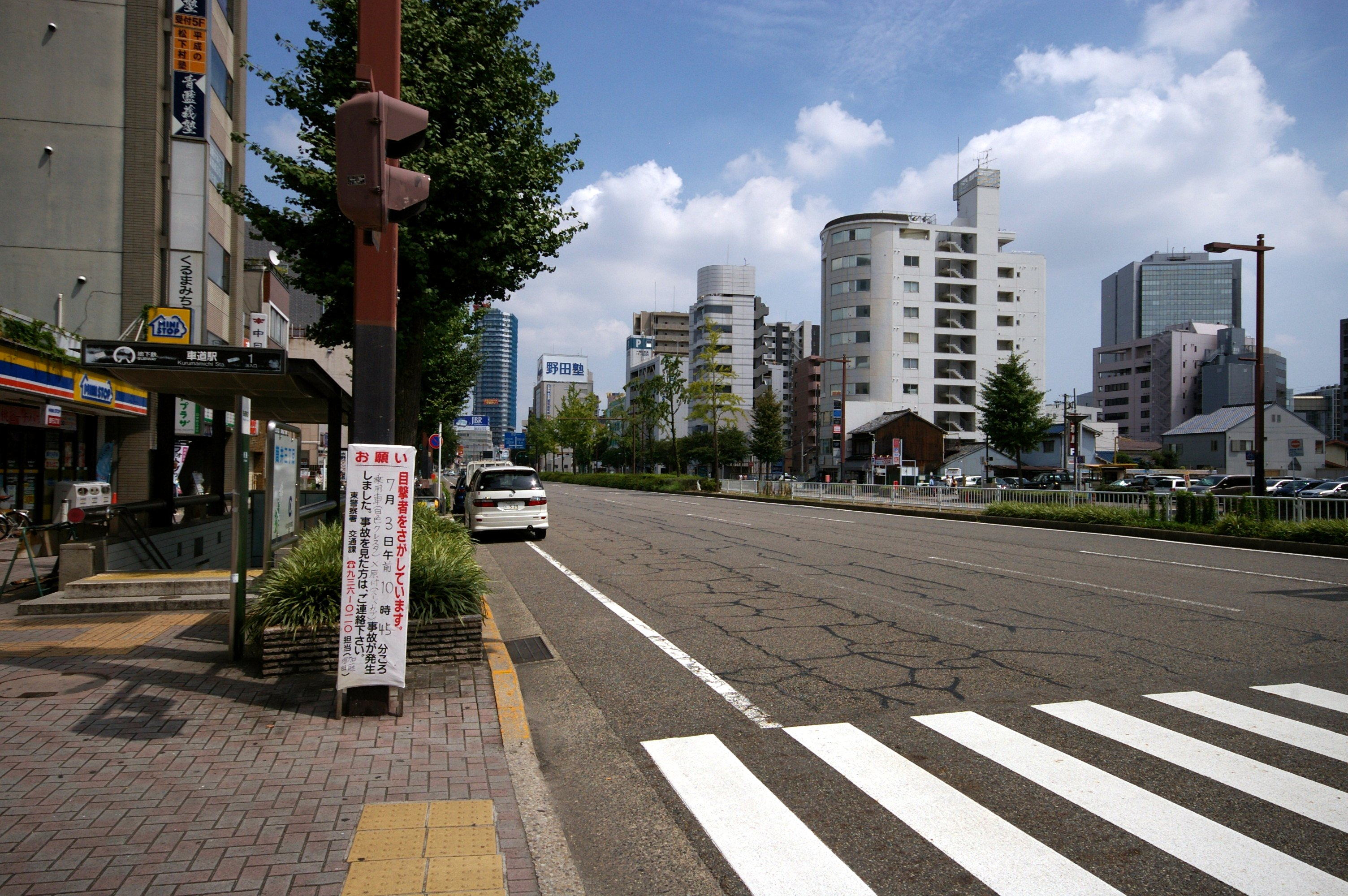 Nagoya Kurumamichi Subway Station